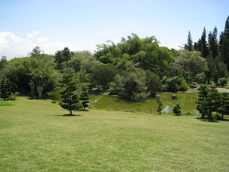 Japanese garden in the Dr. Rafael Ma. Moscoso National Botanical Garden